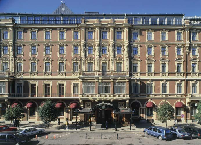 Image taken from the english Wikipedia ( Uploaded 16:16, 3 March 2006 by user:Fisss. Original image informations